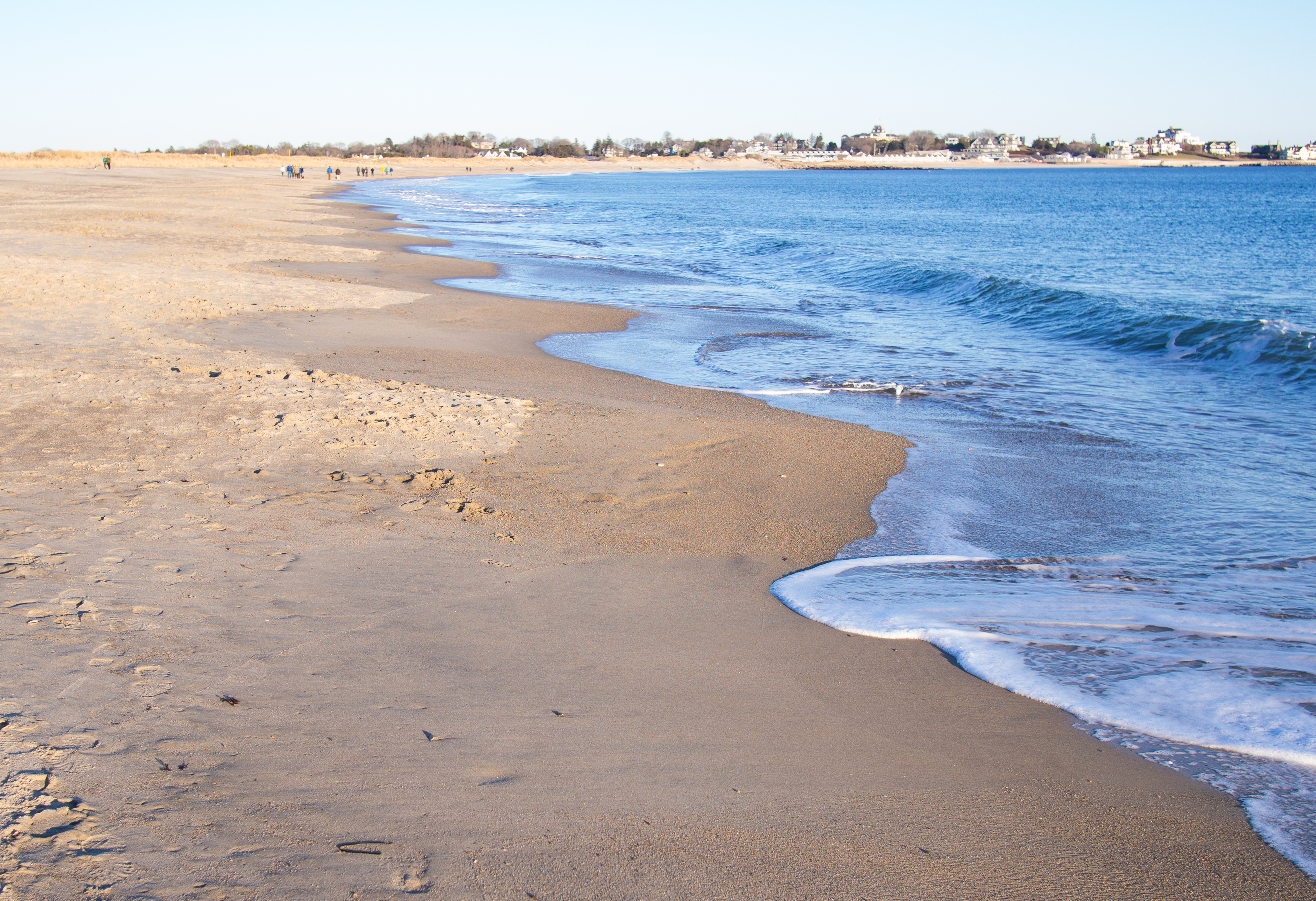 Beach cusps at Napatree Point Conservation Area in the Watch Hill area of Westerly, Rhode Island.